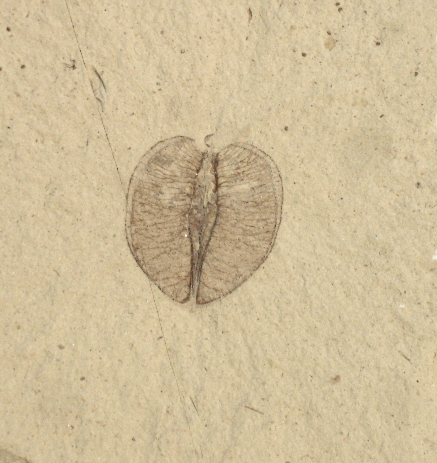 A 1.8cm tall Craigia fruit. Klondike Mountain Formation, Republic, Ferry County, Washington, USA, Eocene, Ypresian, 49million years old. Stonerose Interpretive Center Collection #